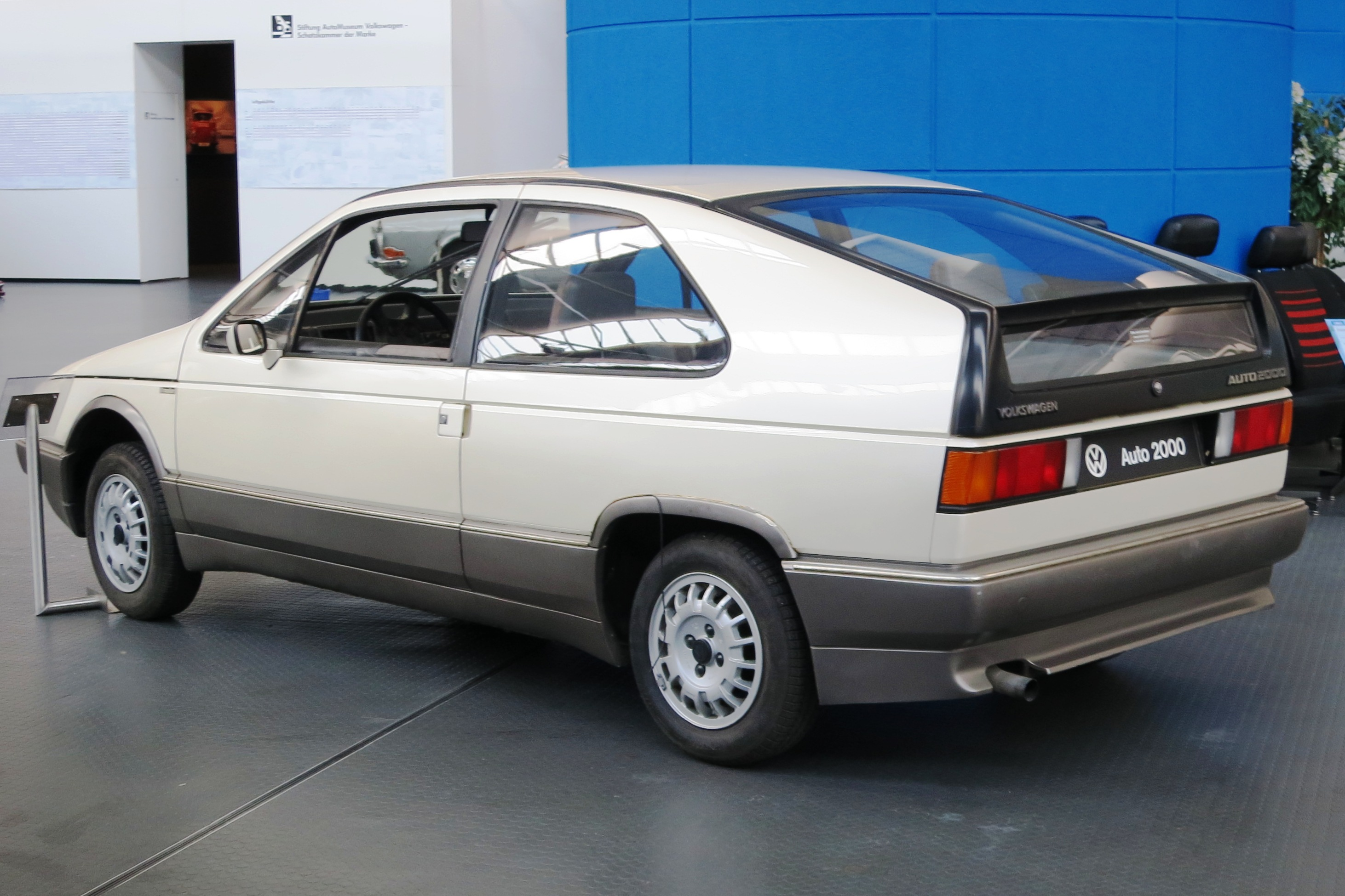 Volkswagen Auto 2000 prototype first presented at the Frankfurt show in 1981 featuring a small fuel efficient 3-cylinder diesel engine and various futuristic fuel saving devices